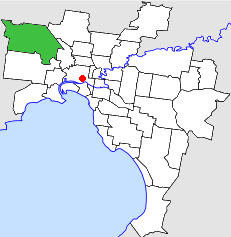 Location of the City of Keilor within Melbourne.